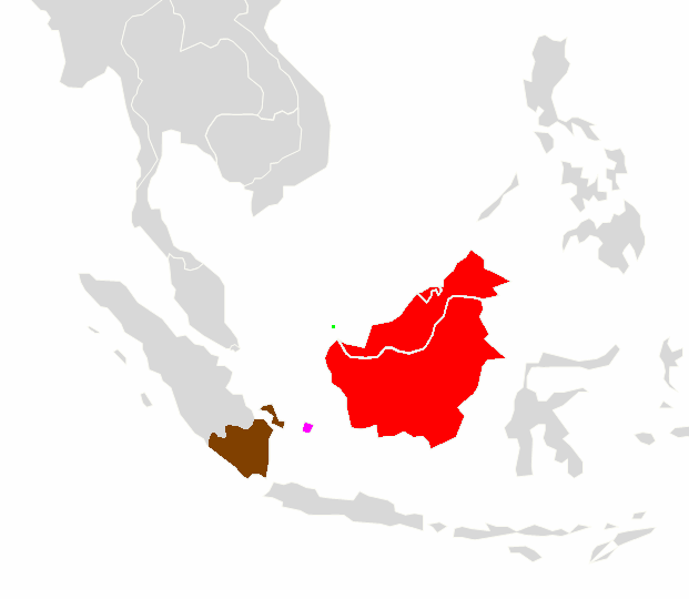 Horsfield's Tarsier (Tarsius bancanus), range map, depending on the range map at IUCN red list brown=T. b. bancanus, purple=T. b. saltador, red=T. b. borneanus, green=T. b. natunensis